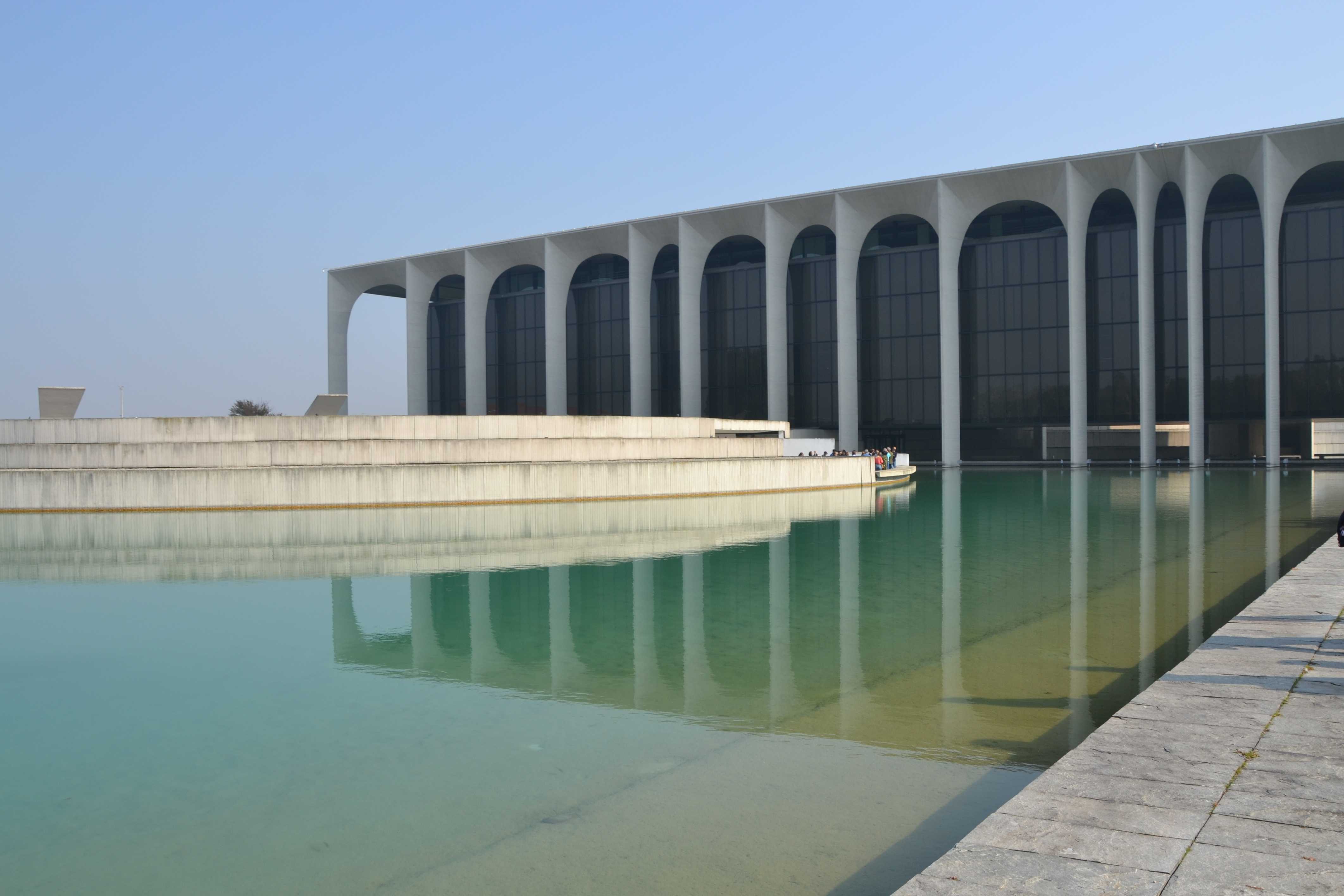 Mondadori headquarters by Oscar Niemeyer (1967 - 1970), Segrate (Milano).